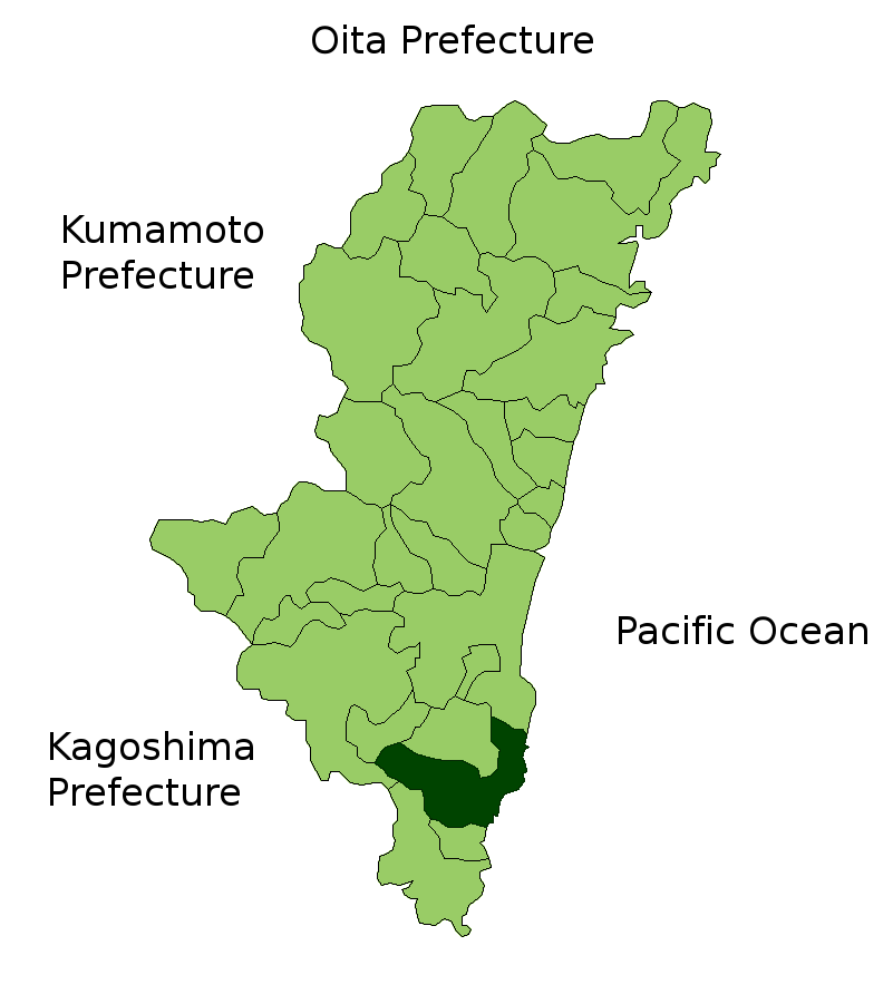 Map of Miyazaki Prefecture highlighting Nichinan city. Borders of map as of July, 2006. (blank map used from [1]) See also Image:MiyazakiMapCurrent.png.